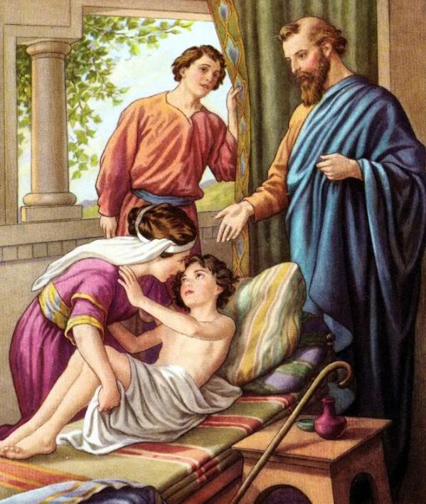 Elisha raising the Shunammites Son